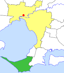 Location of the Shire of Flinders within outer Melbourne.